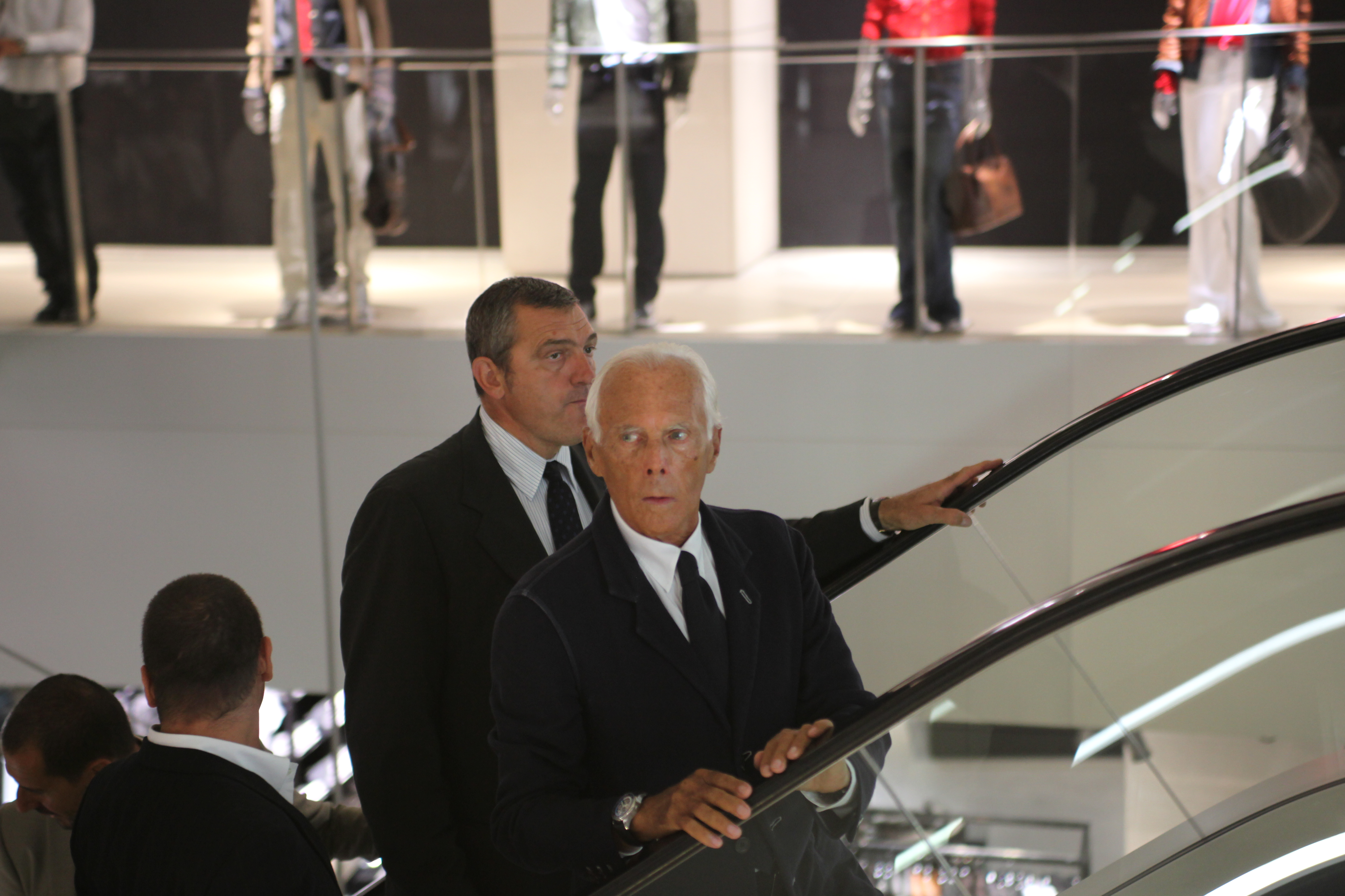 Vogue Fashion's Night Out Sept.10 2009 MILANO